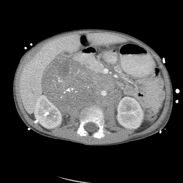 Neuroblastoma, CT of the abdomen